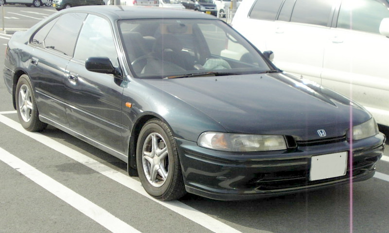 Honda Ascot Innova, photographed in Japan